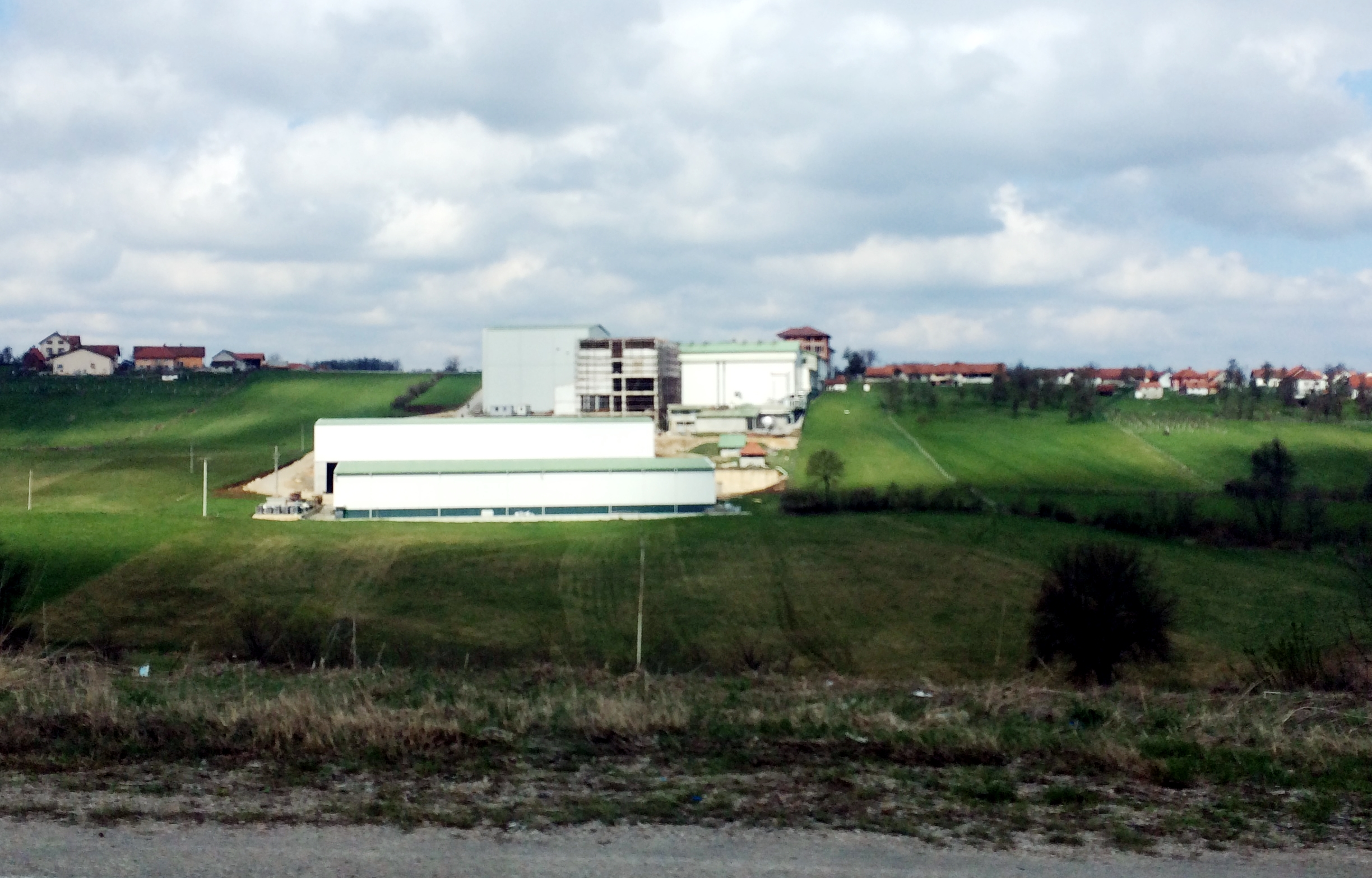 Image from the village of Mačkat in the municipality of Čajetina, western Serbia